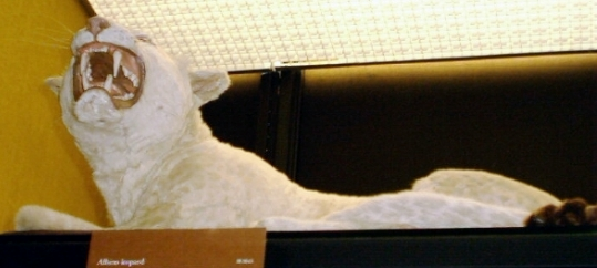 Albino Leopard. Photographer: Sarah Hartwell (Messybeast). Taxidermy at Rothschild Museum, Tring. Released for Wikipedia use.